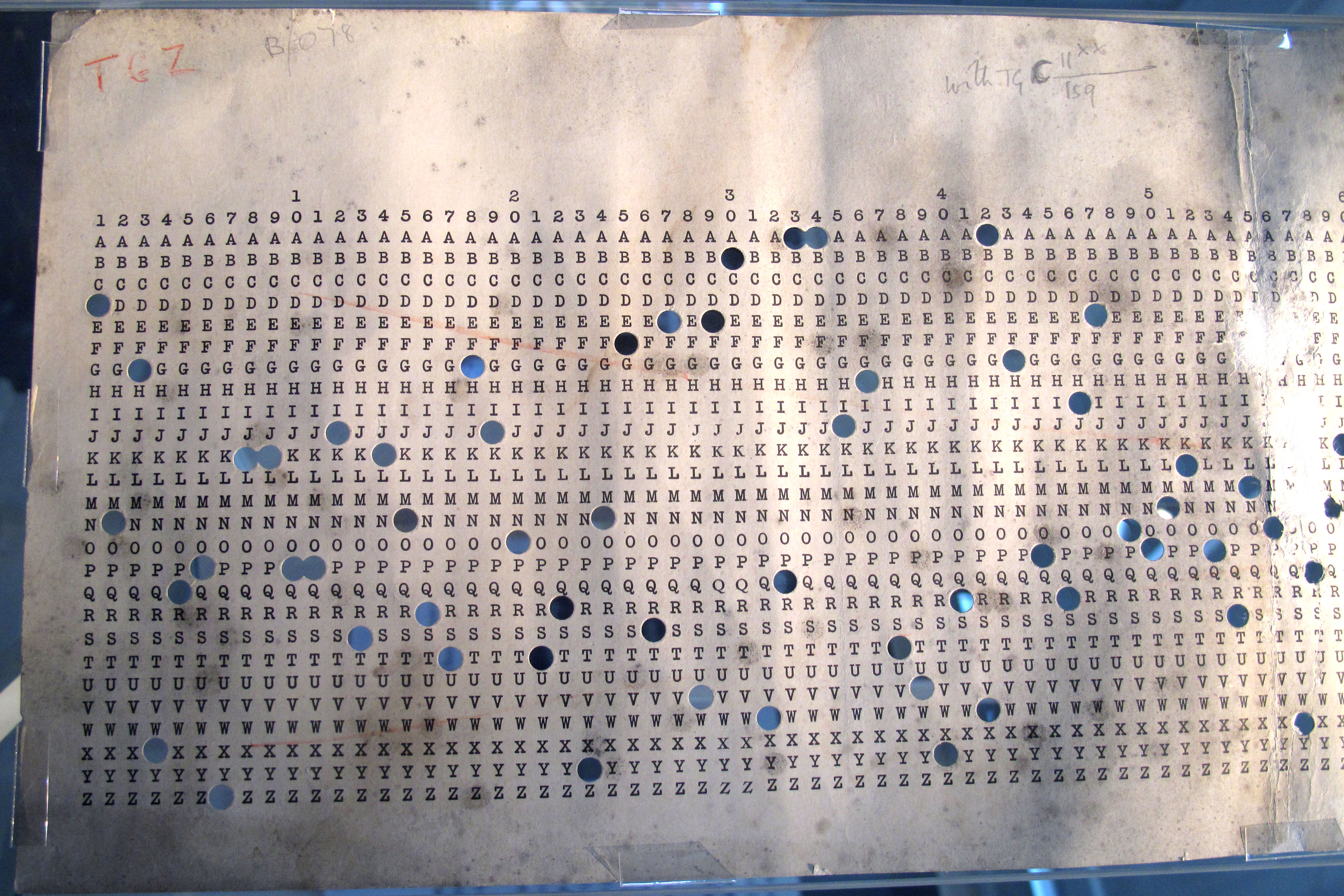 The left hand end of a "Banbury Sheet" from WWII found in 2014 in the roof space of Hut 6 at Bletchley Park. Banbury Sheets, or "Banburies" as they were known, were used in Alan Turing's "Banburismus" procedure that helped to identify some of the Enigma rotors in use and hence reduce the use of "Bombe" time. Banburismus also gave rise to the "Ban" as a measure of the weight of evidence in favour of a hypothesis. This fragment, along with other pieces of scrap paper appeared to have been used to reduce draughts. It, and some of the other pieces, have been conserved and are displayed in Hut 12 at Bletchley Park Museum.